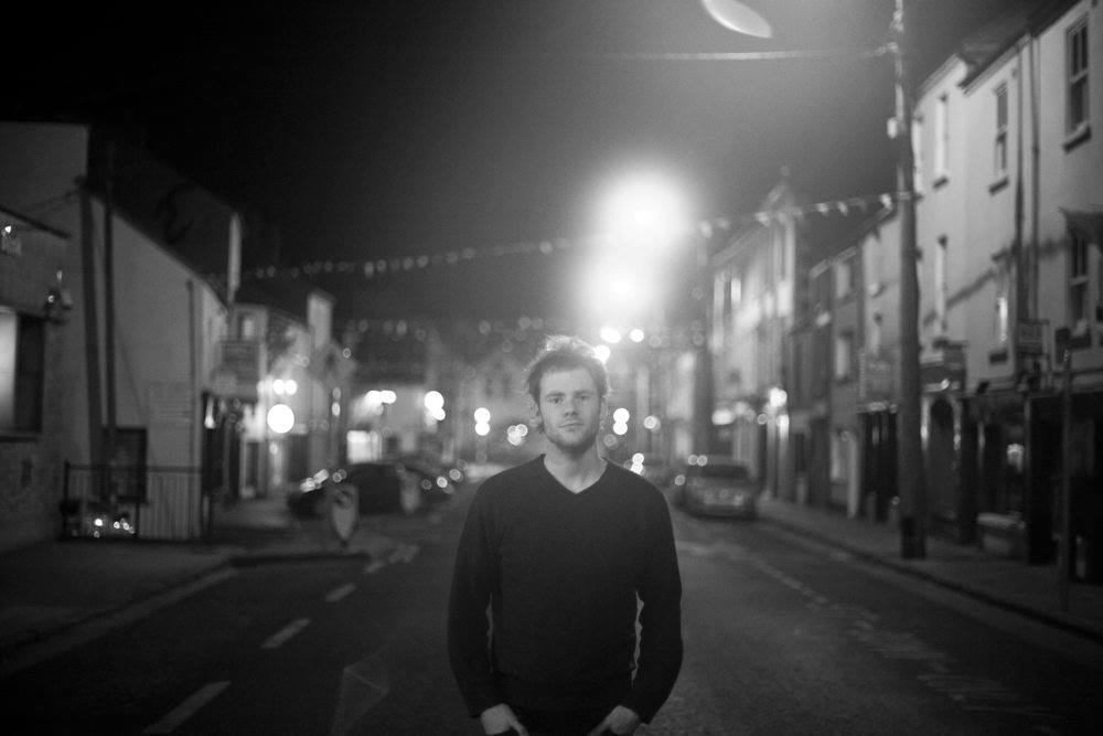 taken as part of James Skerritt's Hello Pleased to Meet You portrait series.